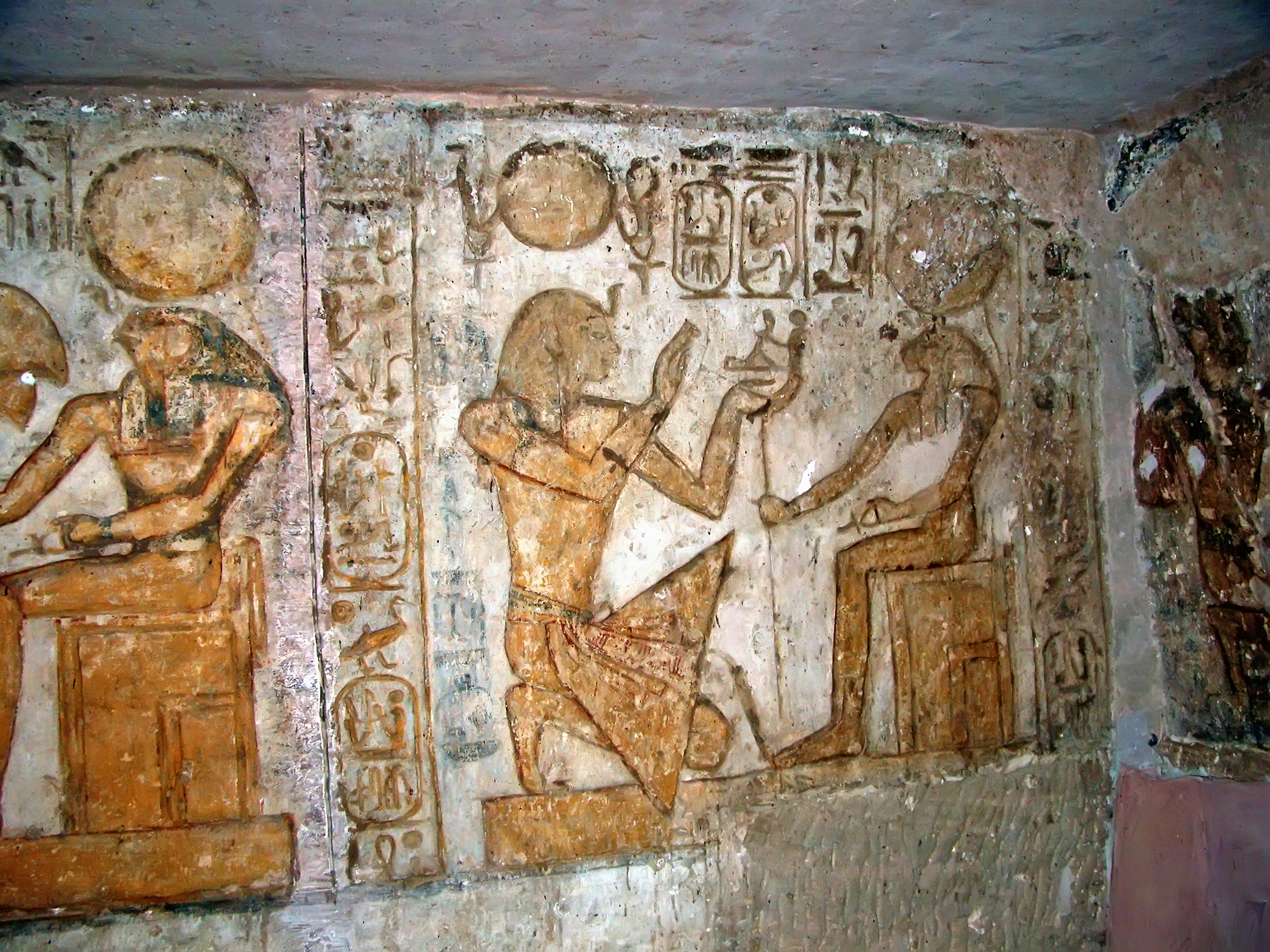 A offering to Maahes, God of War and Protection. Lake Nasser, Egypt The Temple of Wadi el-Sebua but originally know as the “House of Amun”. It was moved in 1964 as the waters were rising in Lake Nasser after the High Dam was built.